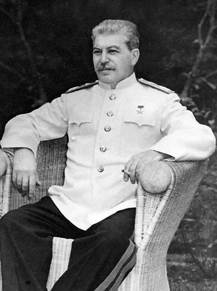 Joseph Stalin, seated outdoors at Berlin conference